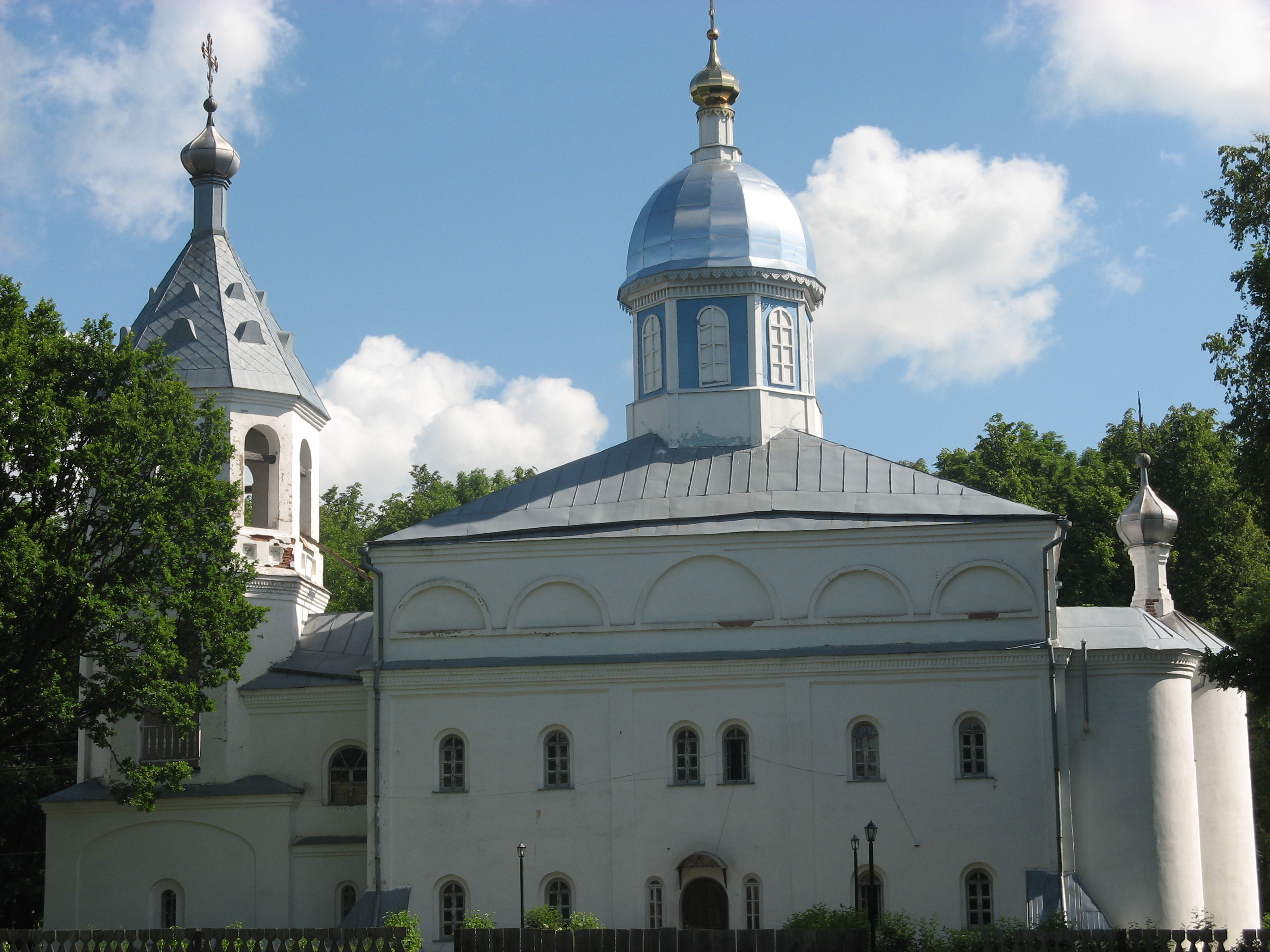 Ильинская церковь